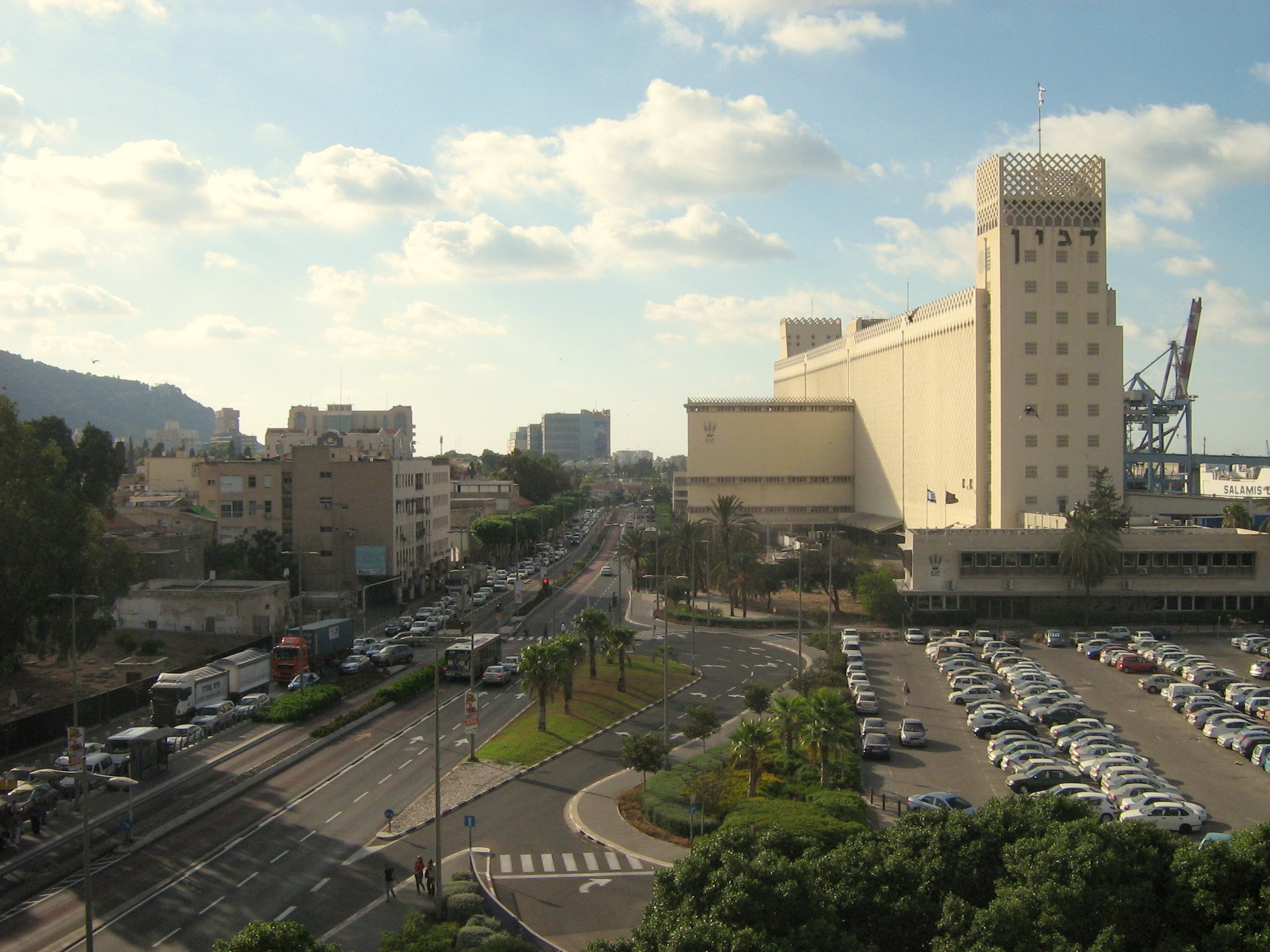 Tiltan College for Design and Visual Communication view from the Tiltan College south